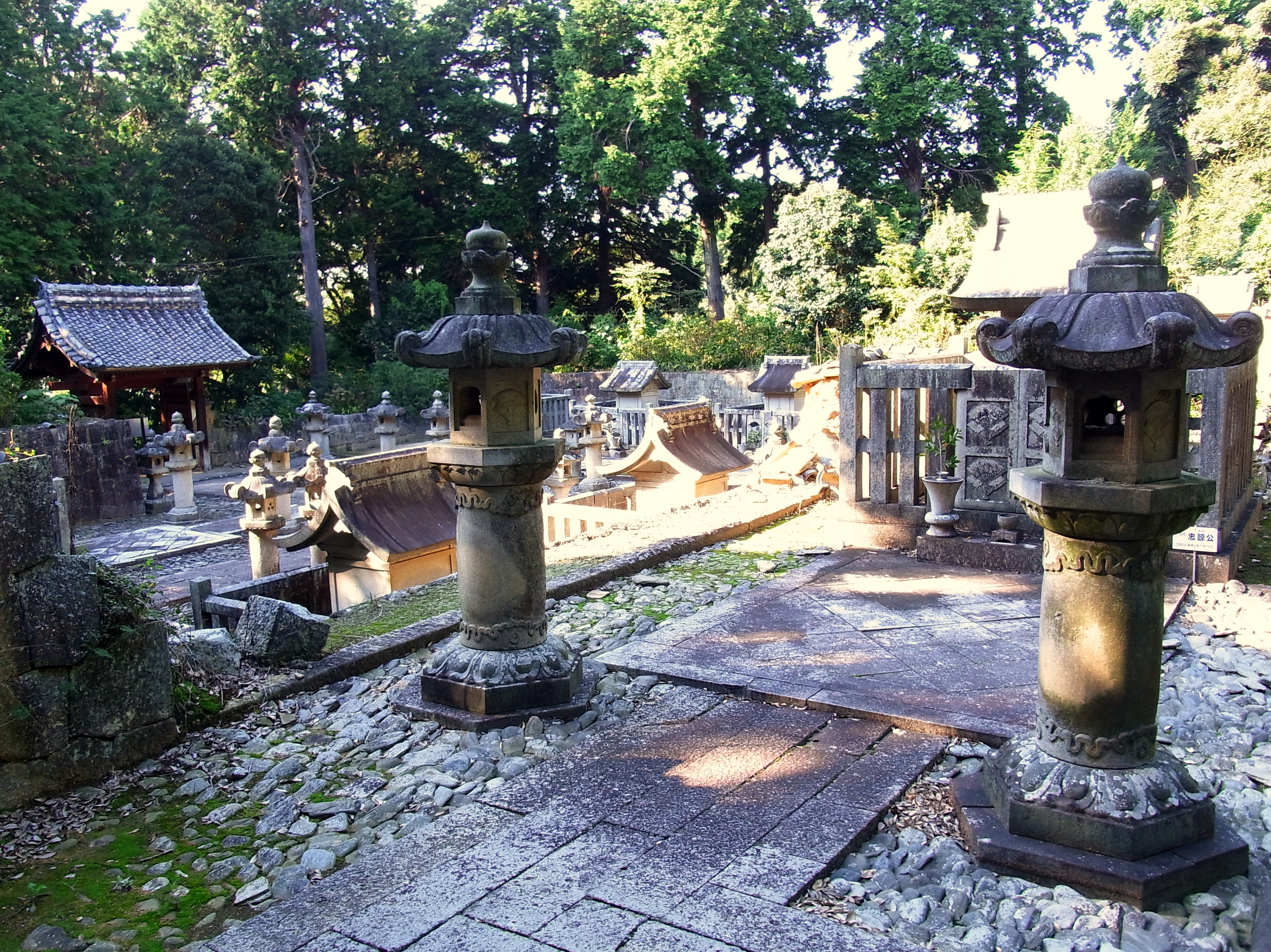 Higashi-gobyosho of Honkoji in Kota town, Aichi prefecture.